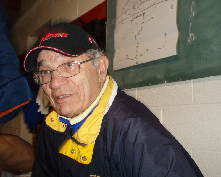 Dragoslav Šekularac while head coach of the Serbian White Eagles in 2006.This photo was used in the following places